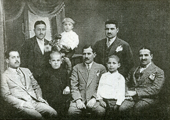 Cemilpaşazade. front row left to right: Mehmet Ferit, Vacdi Osman, Kadri, Fuat Kadri, Ekrem, back row left to right: tutor of Mustafa Nuzhet Jamil, Mustafa Nuzhet Jamil, Bedri Jamil.